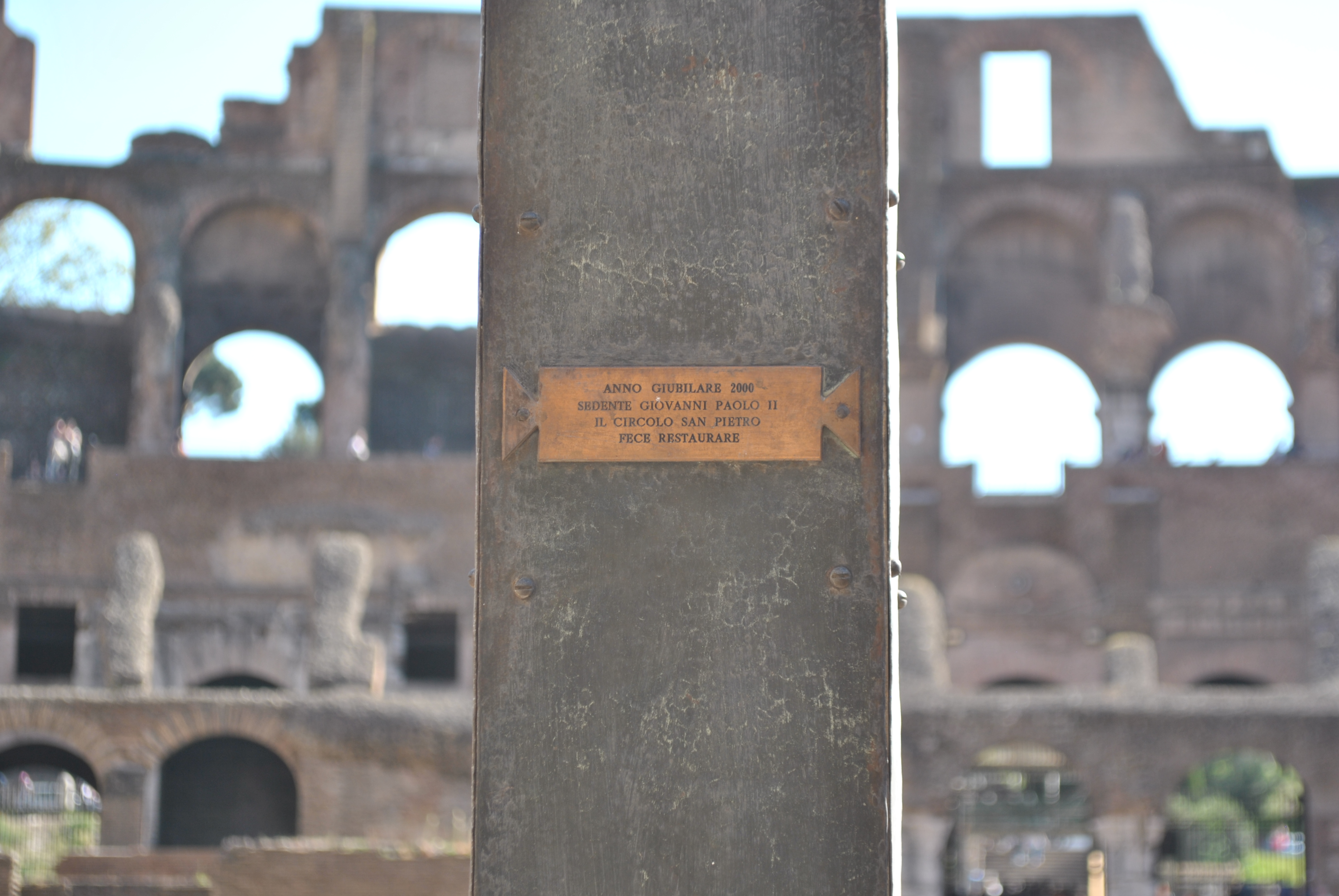 Cross dedicated to the martyrs of the Roman Colosseum, placed in 2000.